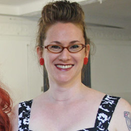 Past Dayne Ogilvie winner Debra-Anderson Dayne_Ogilvie_Prize